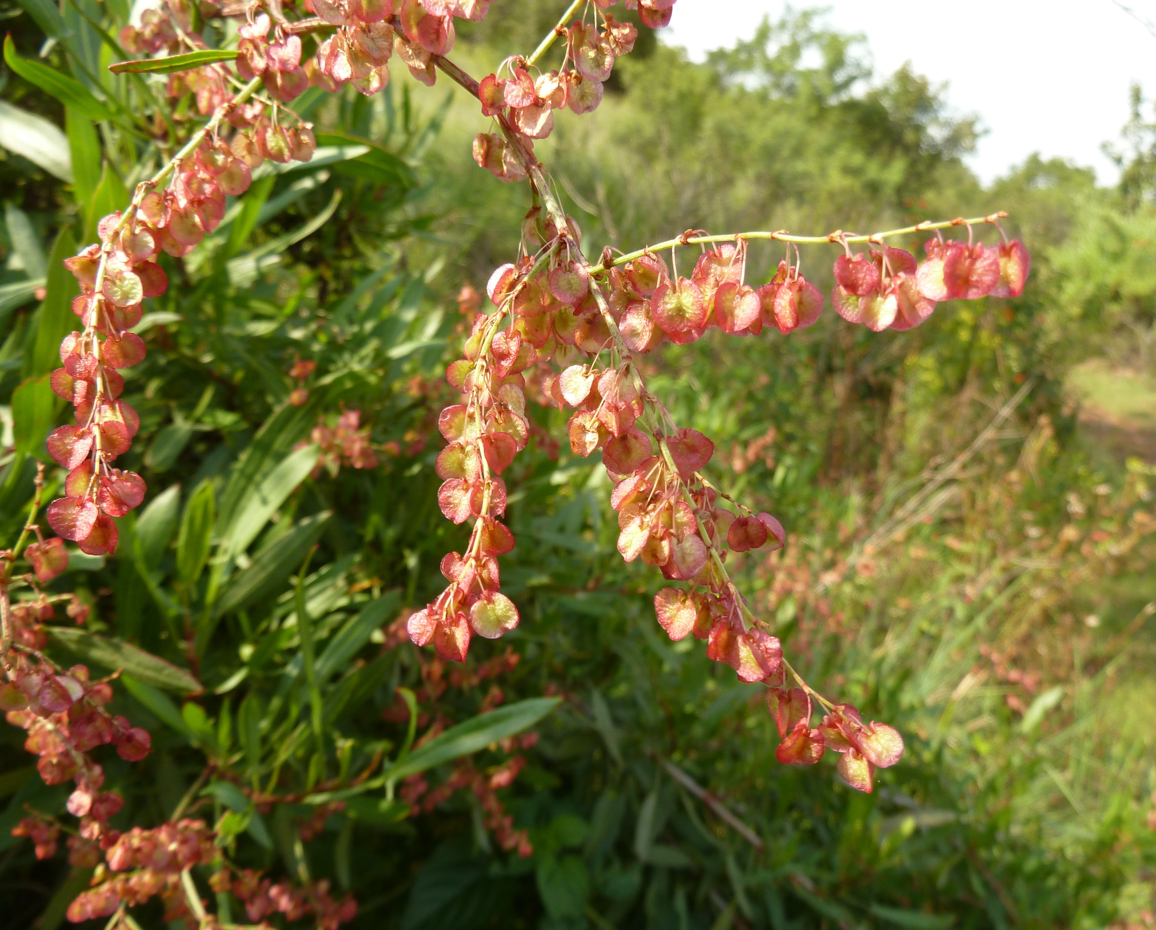 Fruit of an Arrowhead vine in Groenkloof Nature Reserve